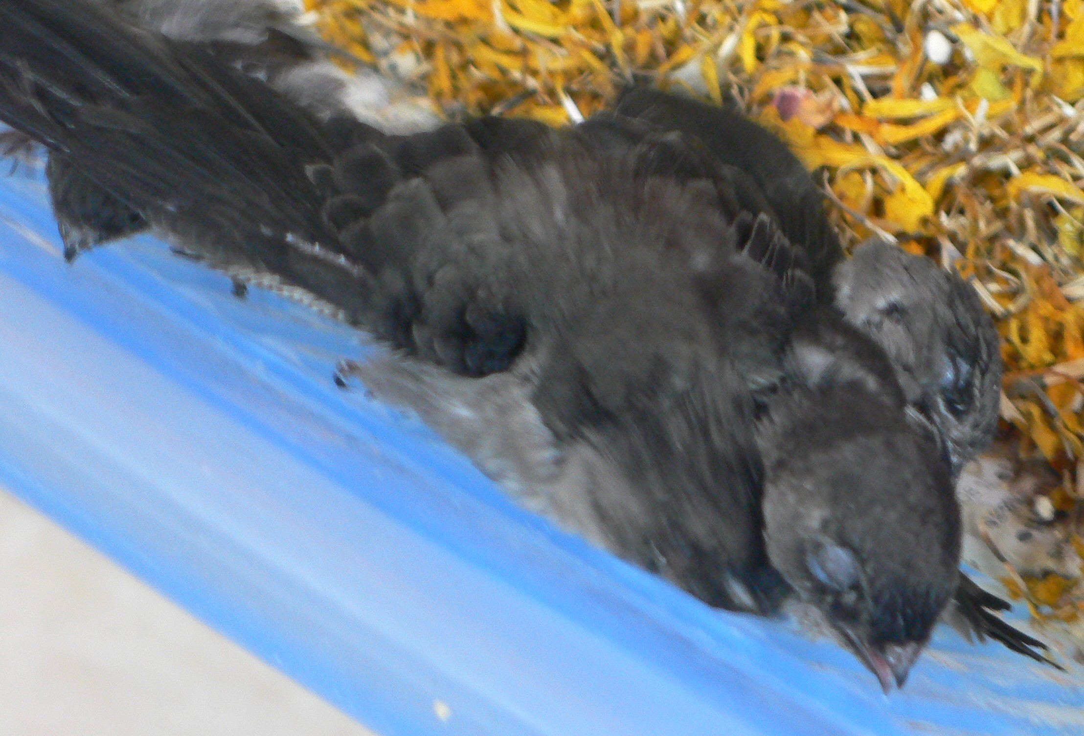 Juvenile German's Swiftlet. These birds have fallen from nests inside the Chong Lom temple, Thailand, and are being reared by hand. My image, February 2008.